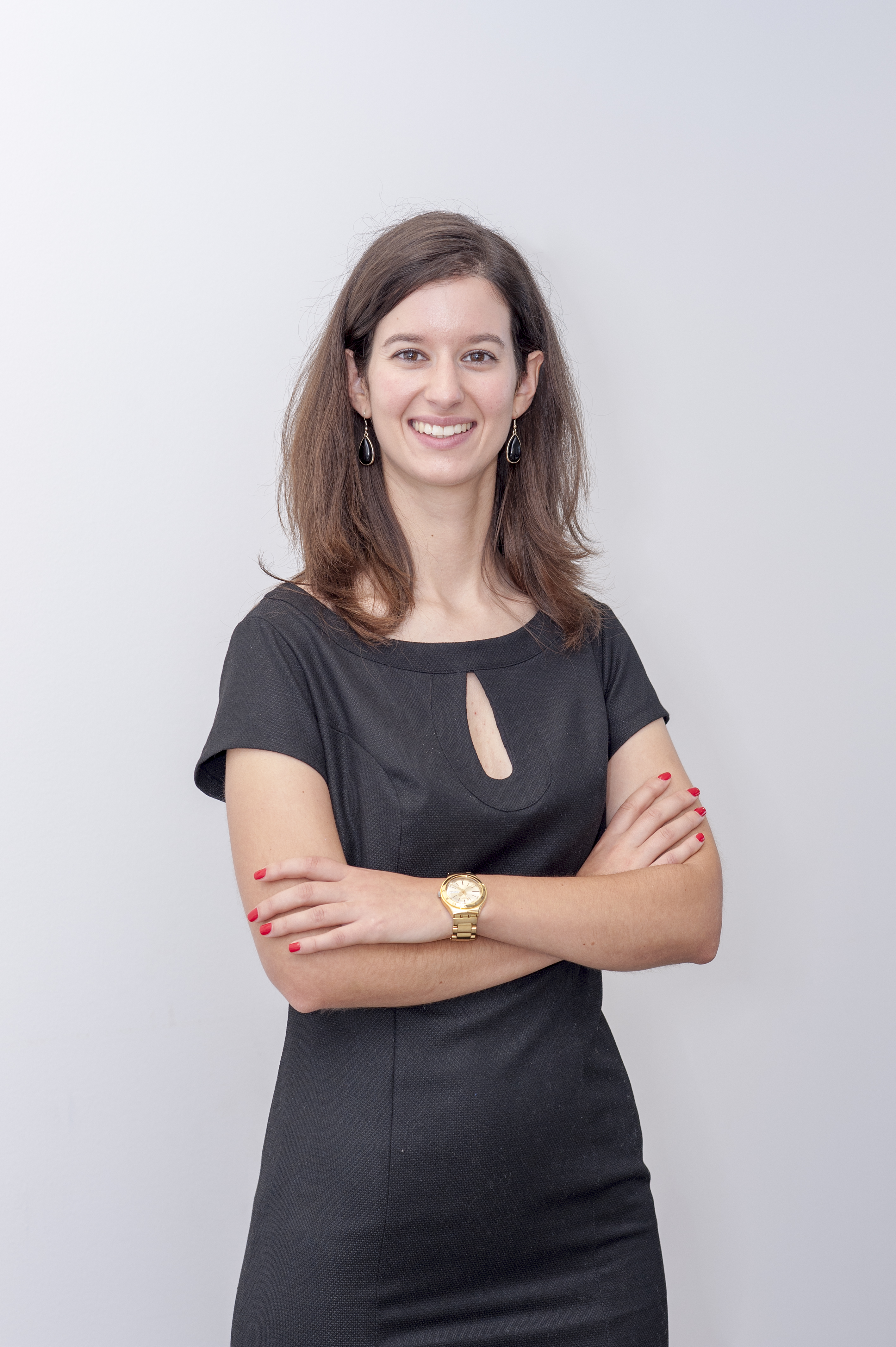 Cristina Fonseca, co-founder of TalkDesk